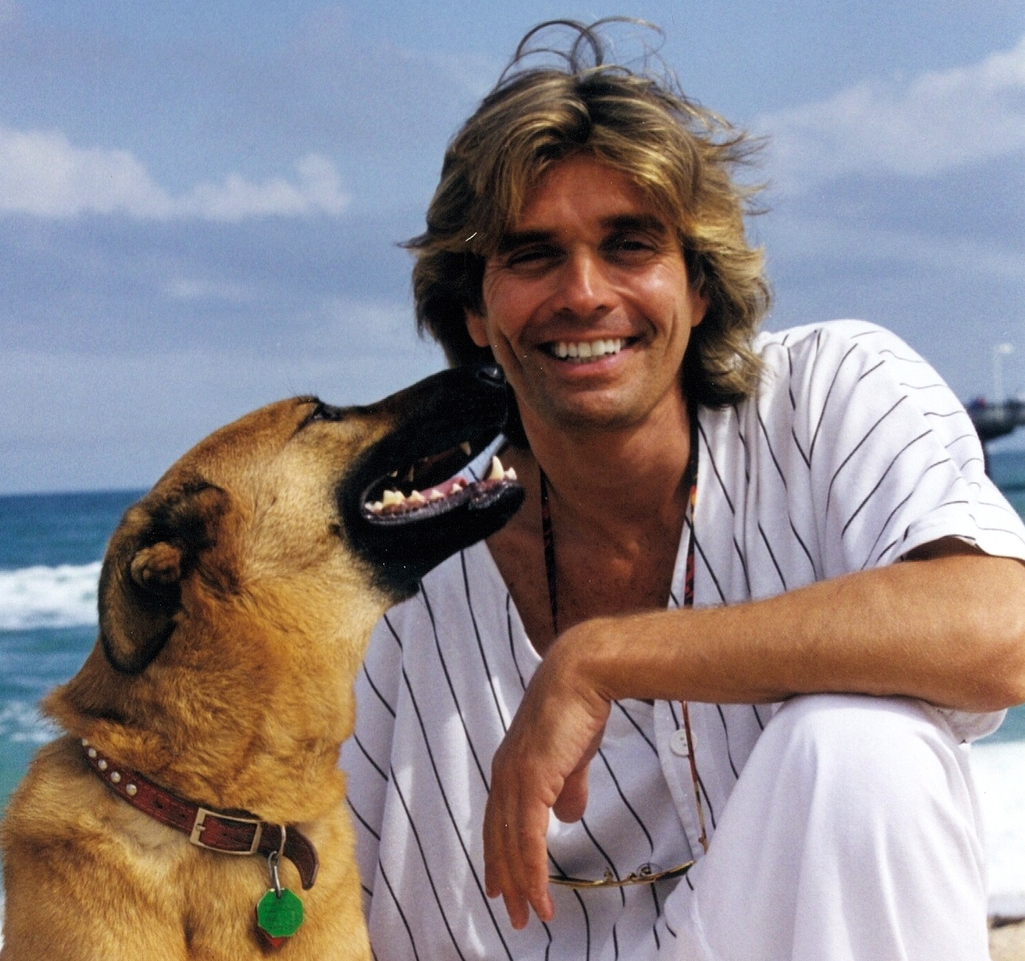 Description: Alex Pacheco, American animal rights advocate and co-founder of PETA, and Bear